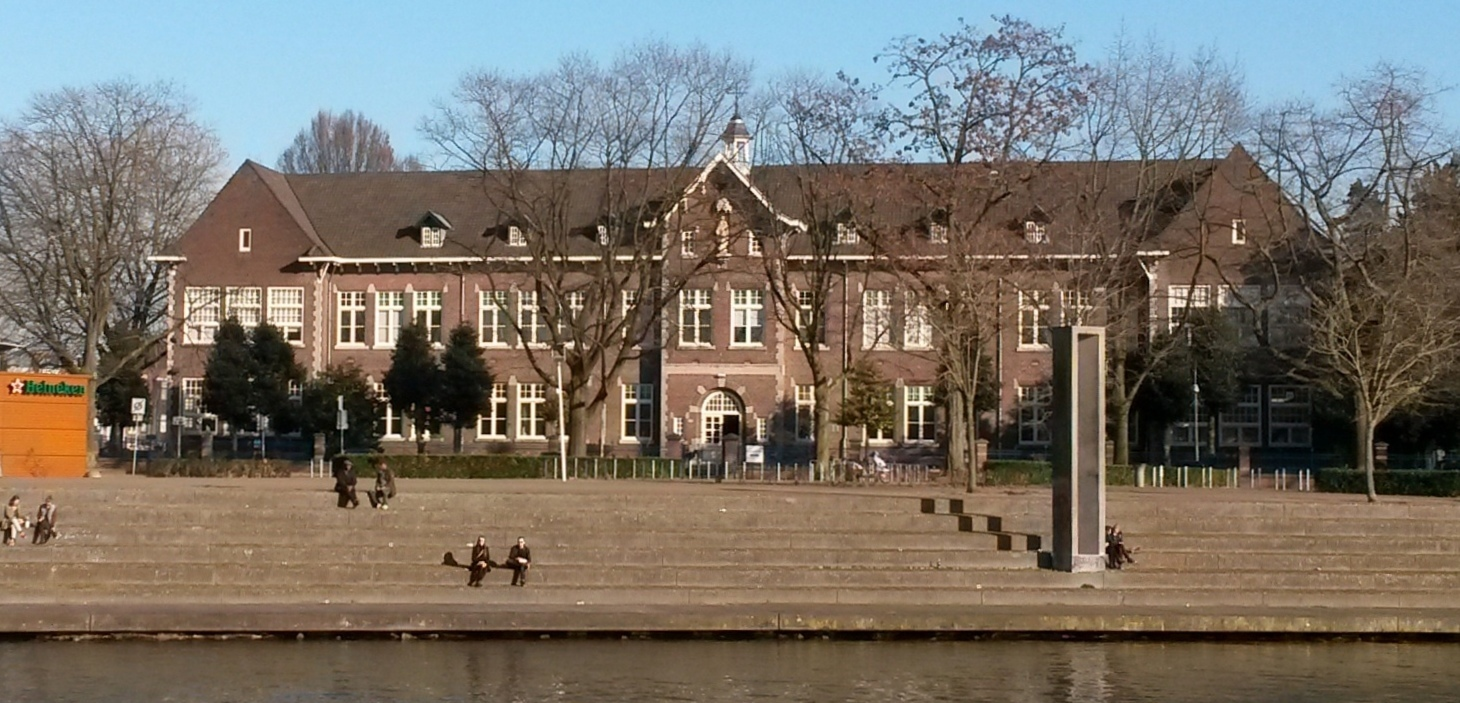 2015-03-12 in Maastricht; Wyck seen from jetty between Sint-Servaasbrug and Wilhelminabrug.